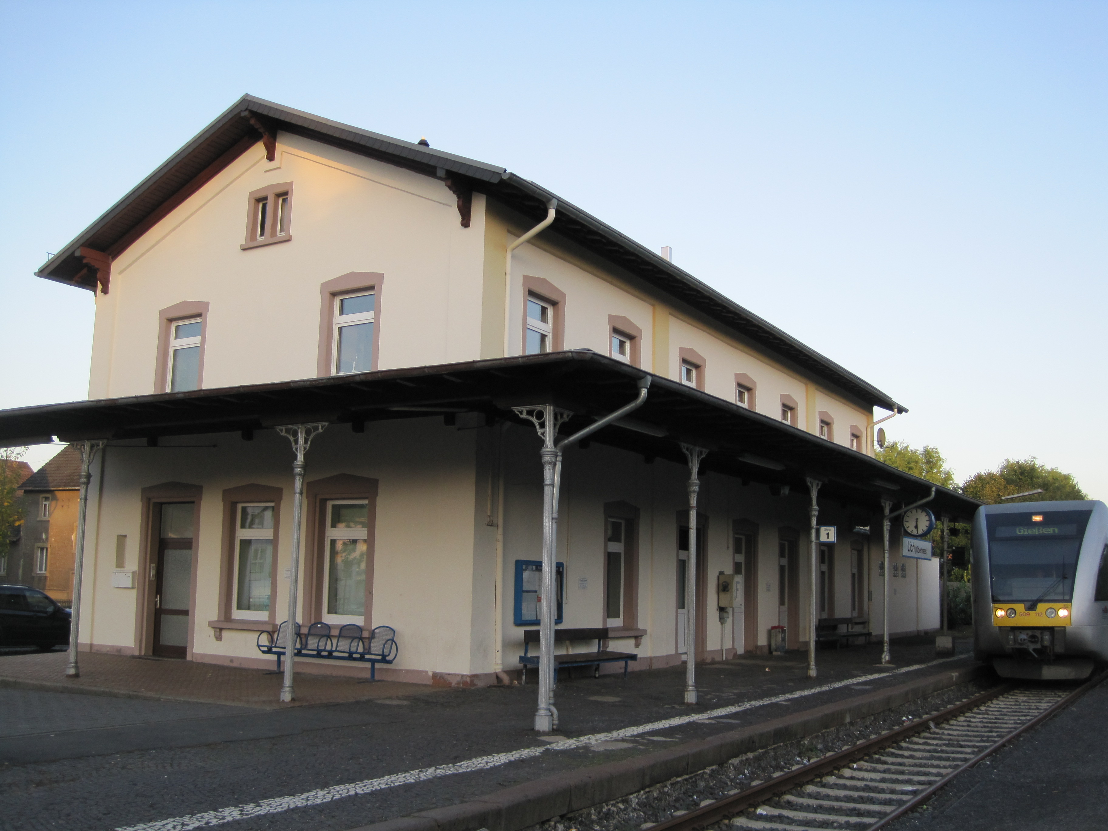 Lich (Oberhess) station, Lich, Germany check usage